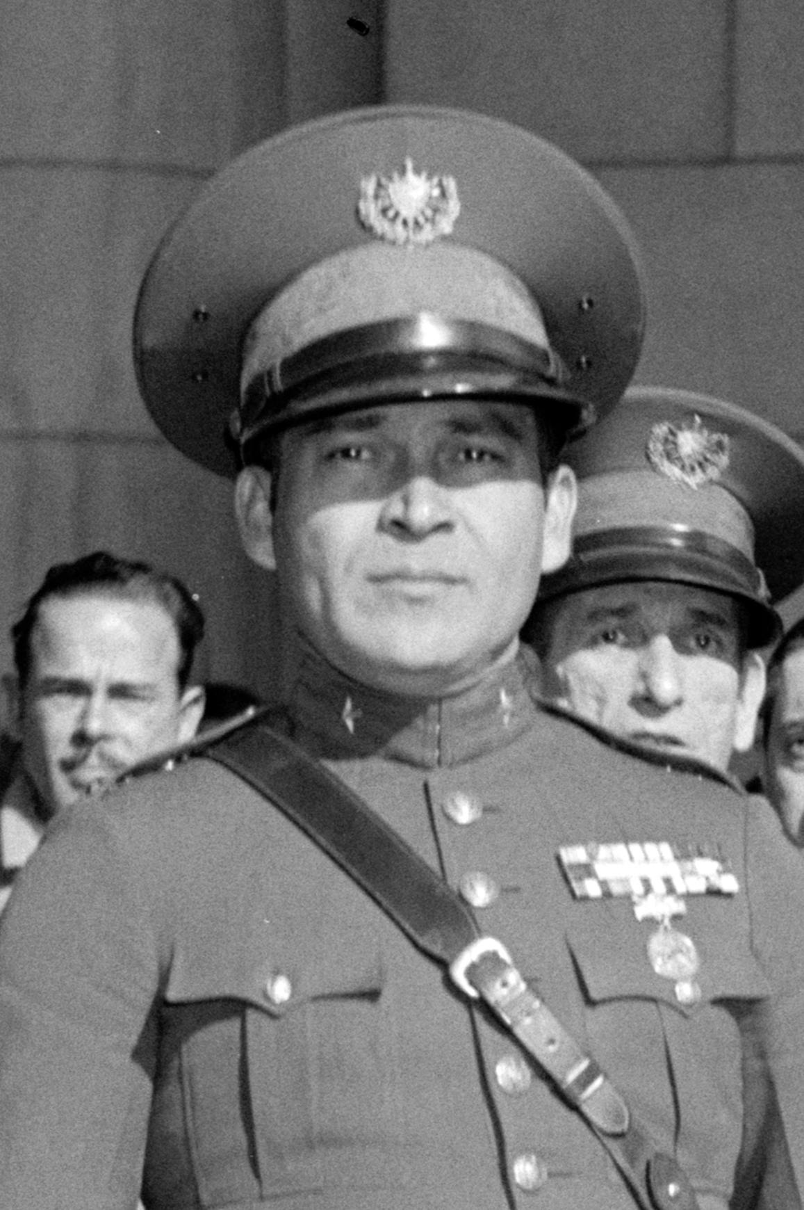 "The Dictator from Cuba arrives. Washington, D.C., Nov. 10. Col. Fulgencio Batista, Cuba's Dictator, arrived in Washington today, he was met at the Union Station by General Malin Craig, Chief of Staff of the United States Army, who invited the Colonel to the Capitol, and Undersecretary of State Sumner Welles, as well as a hundred Cubans who bowed to the Colonel as he passed thru Union Station, left to right. Sumner Wells, Batista, Craig, and the Ambassador from Cuba Dr. Pedro Fraga, 11/10/38" (Title from unverified caption data received with the Harris & Ewing Collection.)